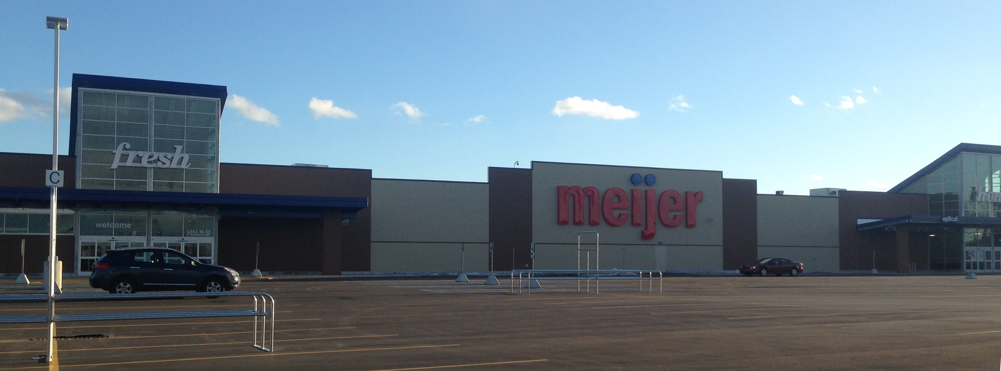 Meijer store in Alpena, Michigan